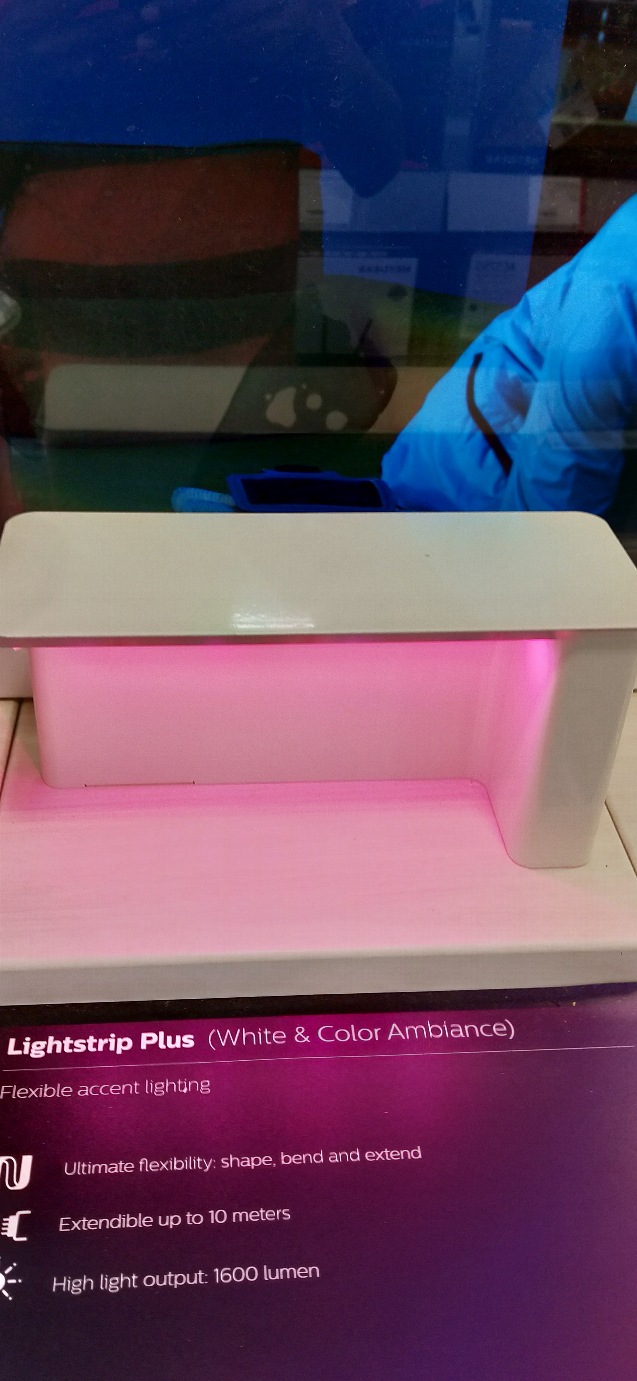 Hue Lightstrip Plus used for indirect lighting